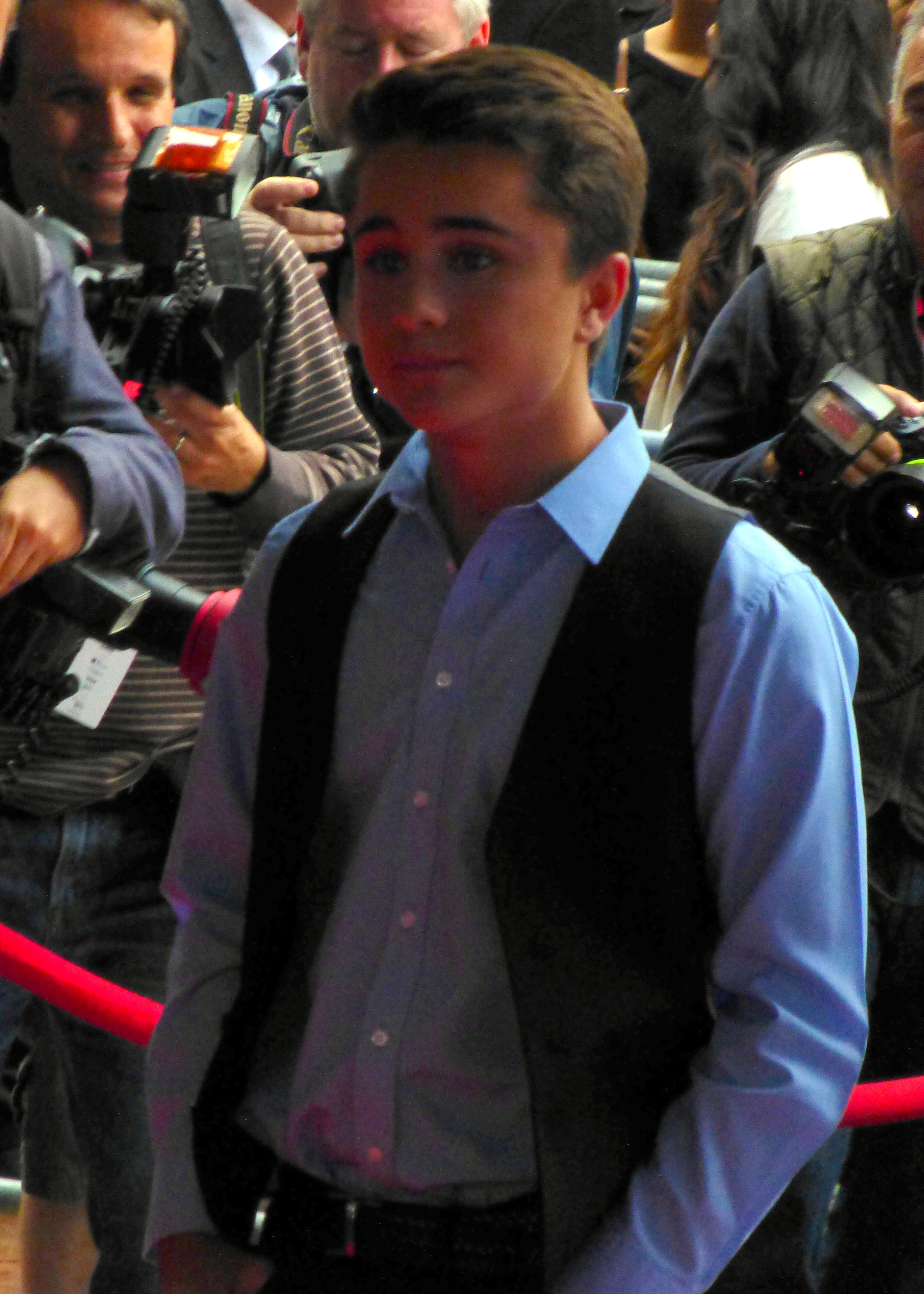 Gattlin Griffith at the premiere of Labor Day, Toronto Film Festival 2013